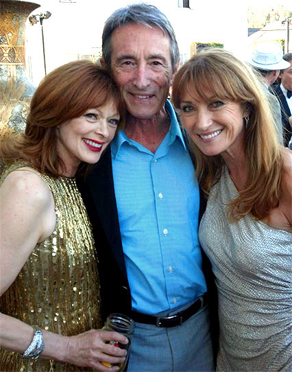 Actors Frances Fisher, Jane Seymour, and Richard Chaves at a party on May 11th 2013